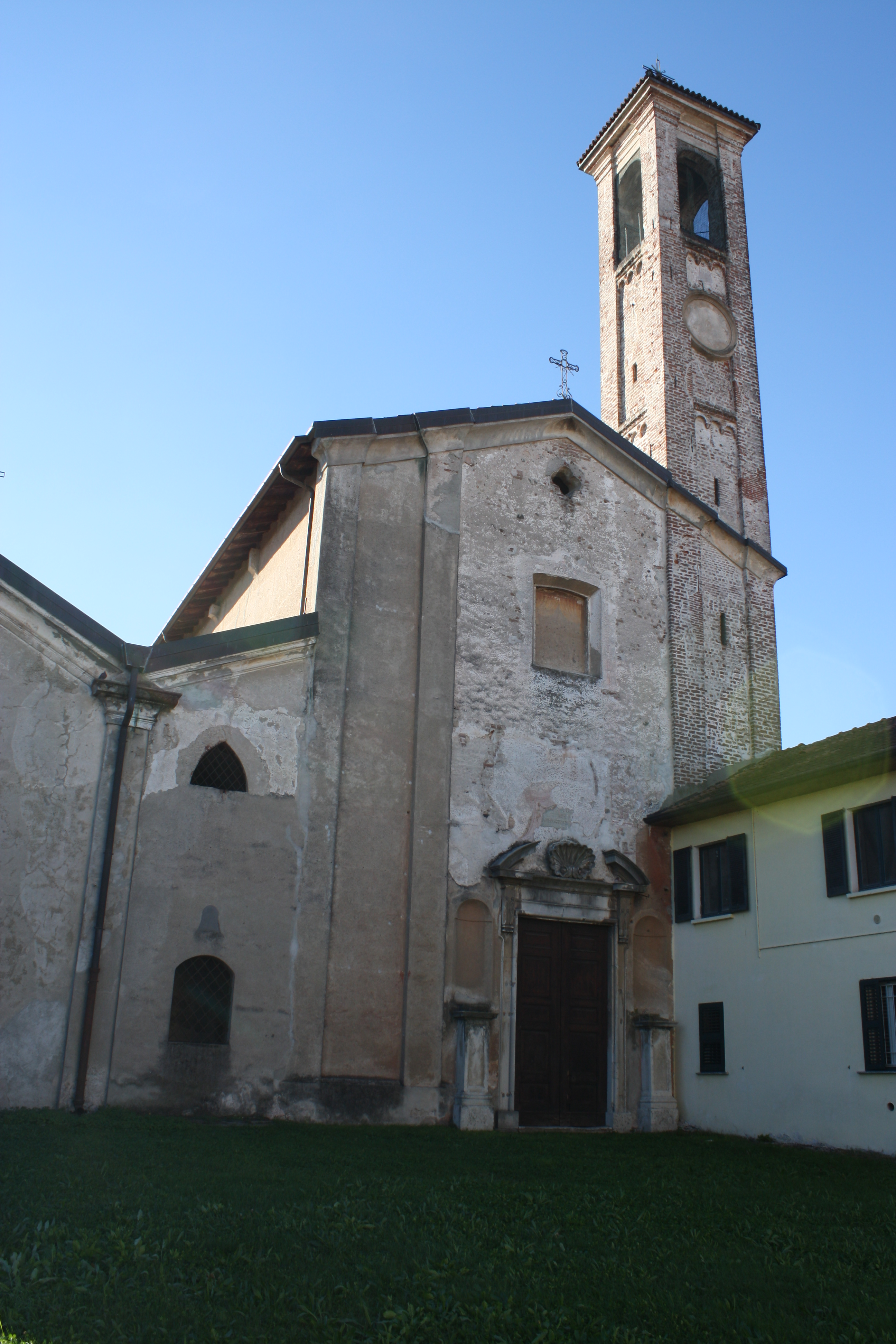 Saint Peter church in Lonate Ceppino (Lombardy, Italy).